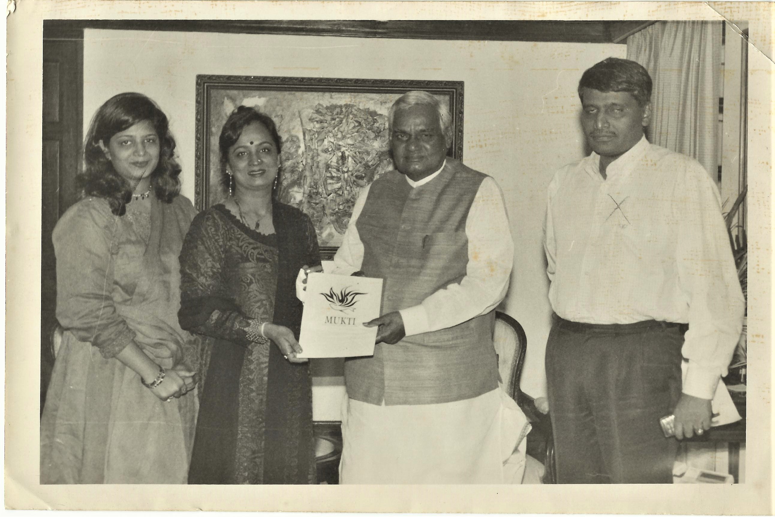 Mukkti Foundation conducted a celebrity cricket match on the 6th May, 2000 between the celebrities from the Indian Cricket Team and the Indian Film Industry for the drought victims of Rajasthan and Gujarat. The proceeds of this event, amounting to Rs. 41,00,000/- were donated to the ‘Prime Minister’s Relief fund’.